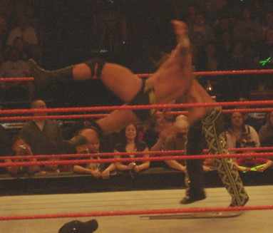 Randy Orton's RKO finisher